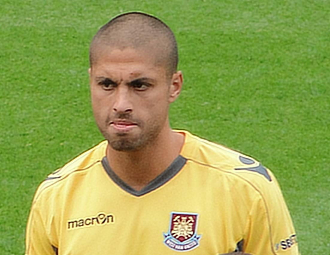 West Ham's da Costa warming-up before their victory against Tottenham Hotspur on 25/10/2010